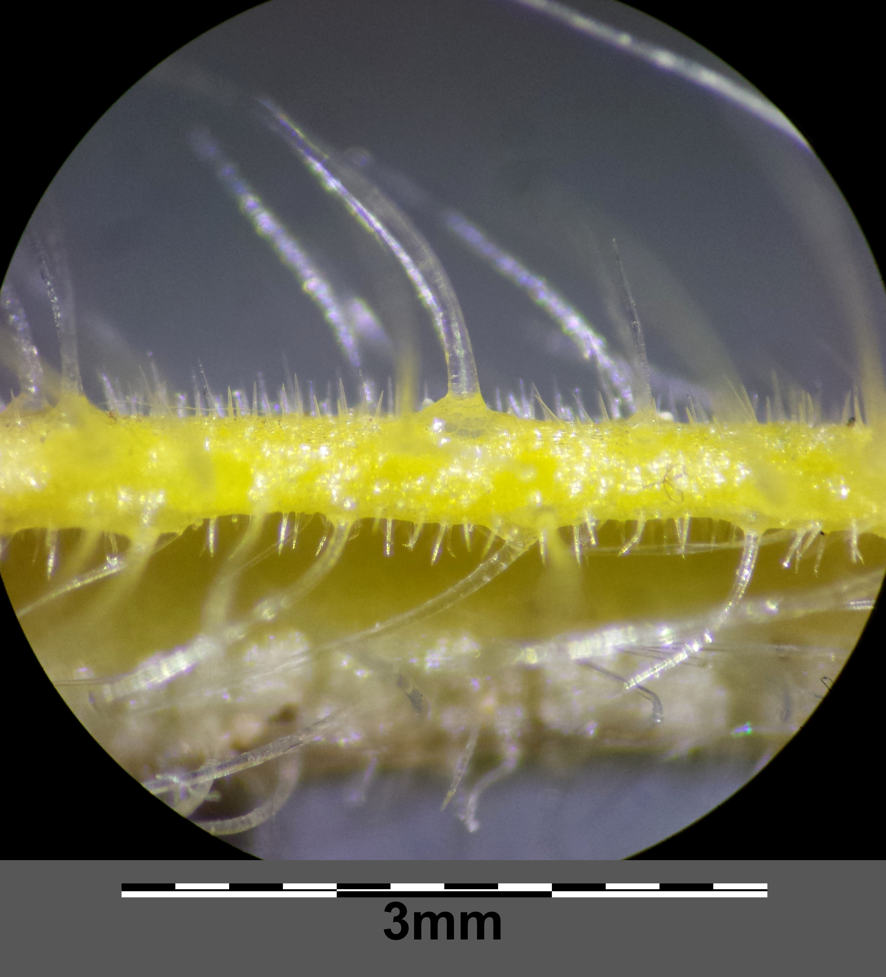 Ground leaf with indument (detail) Taxonym: Onosma visianii ss Fischer et al. EfÖLS 2008 ISBN 978-3-85474-187-9 Location: near Gumpoldskirchen, district Mödling, Lower Austria - ca. 300 m a.s.l. Habitat: meadow/border of a wood